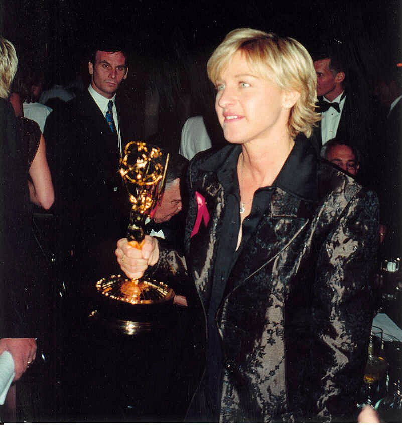 Photo taken at the 1997 Emmy Awards - Permission granted to copy, publish or post but please credit "photo by Alan Light" if you can